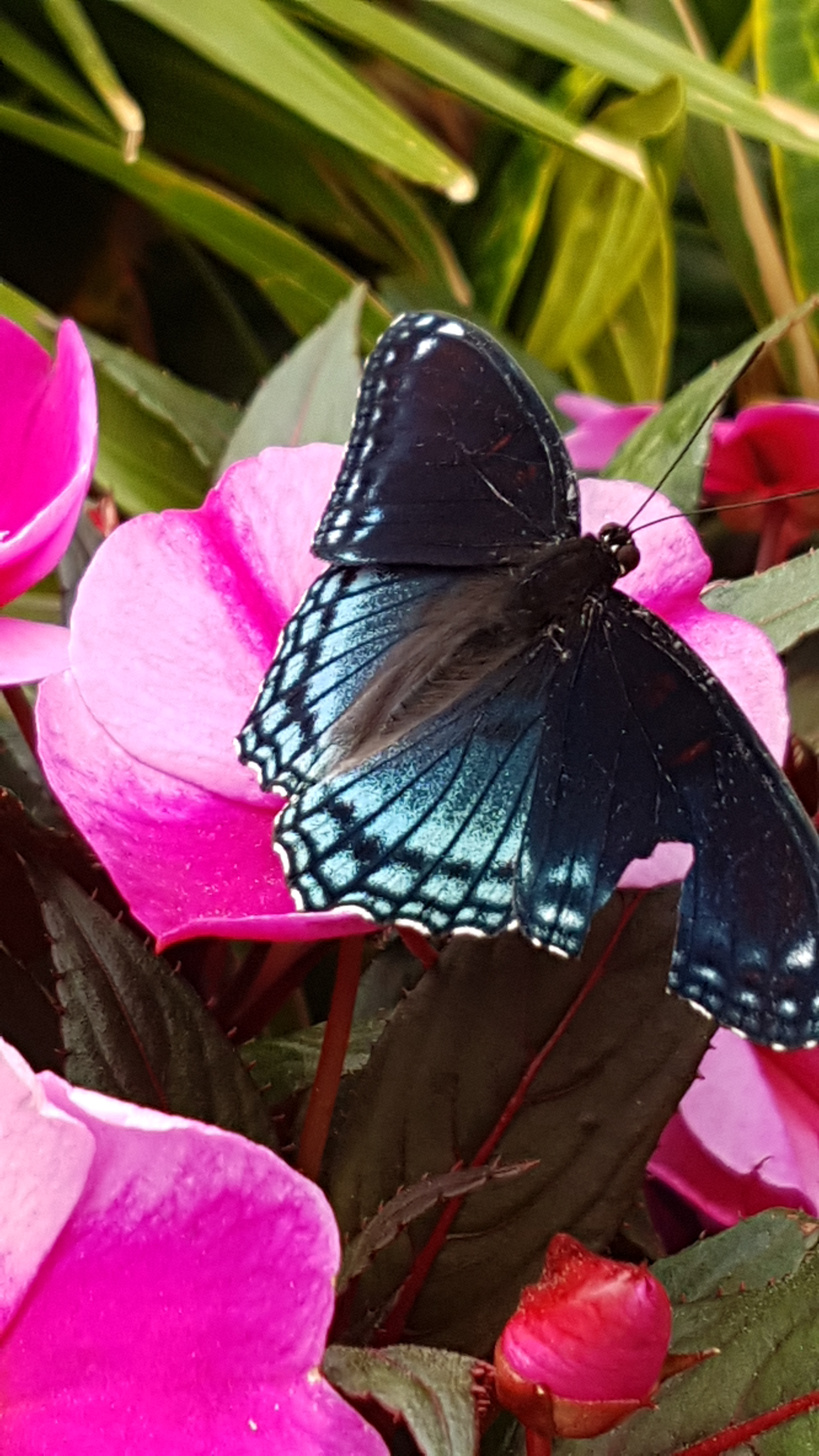 L Arthemis Mississauga Ontario Canada - Top view